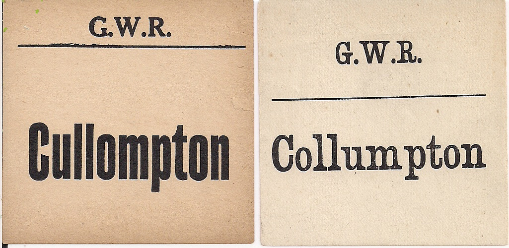 Luggage labels from the Great Western Railway showing 2 variations on the speling of Cullompton